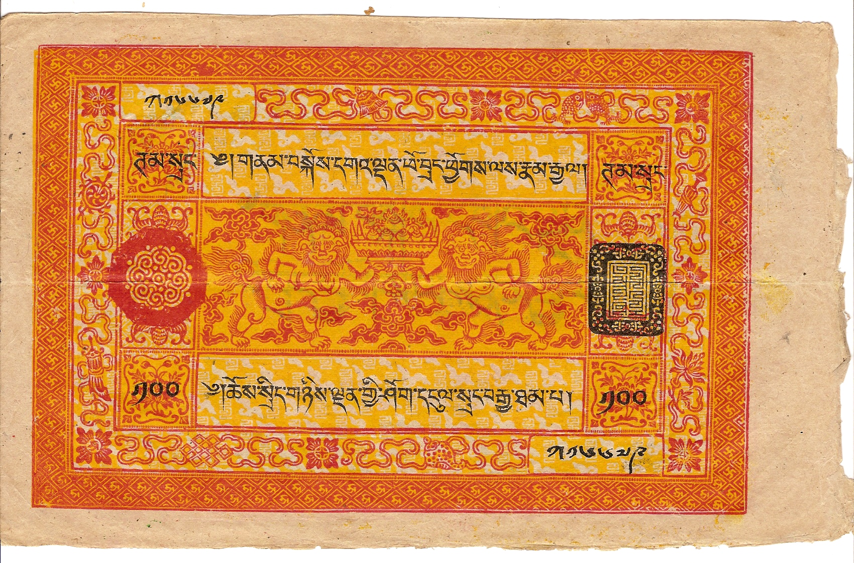 Tibetan 100 tam srang banknote, undated